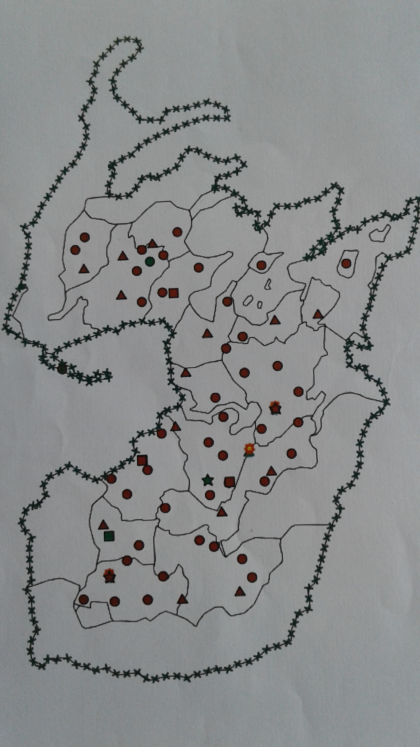 கொல்லிமலை தாலூகா பள்ளிகள்